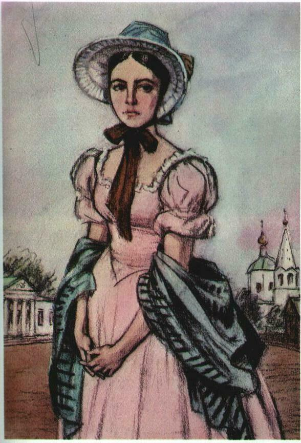 Lisa_Kalitina